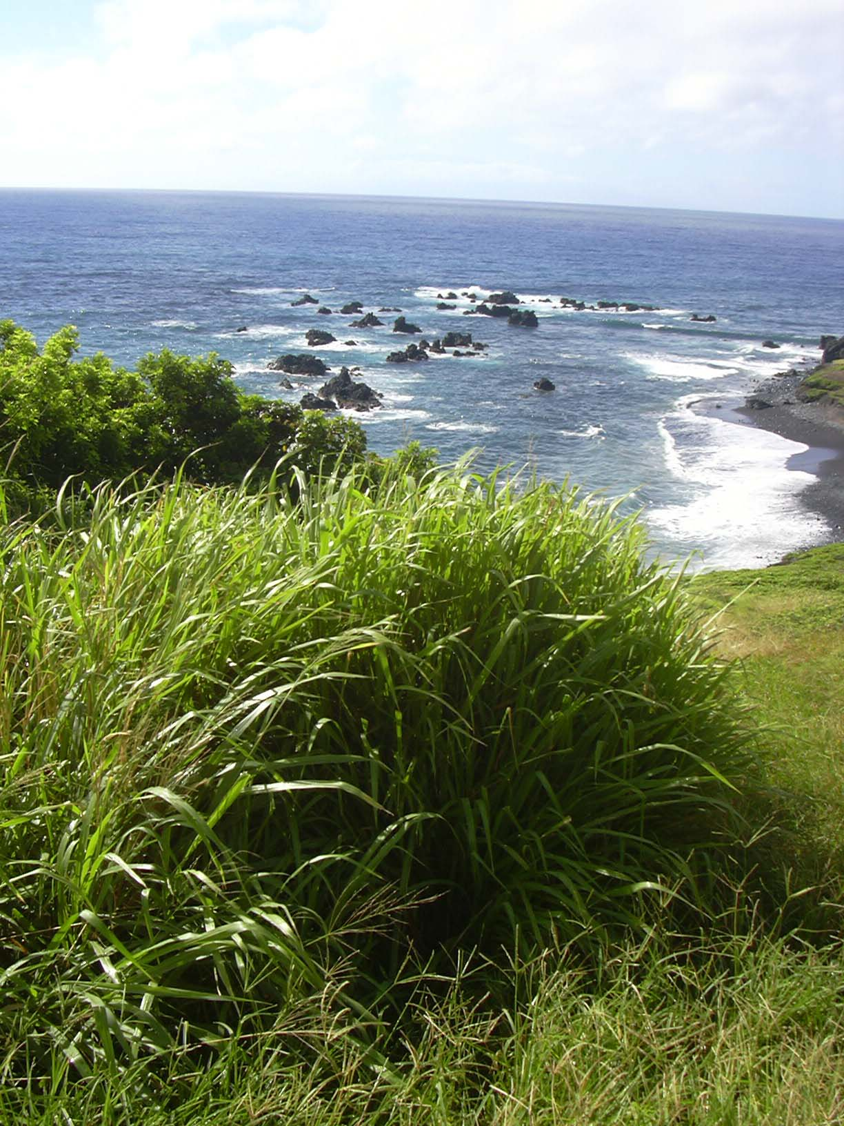 Panicum maximum (view rocks). Location: Maui, Kaupo